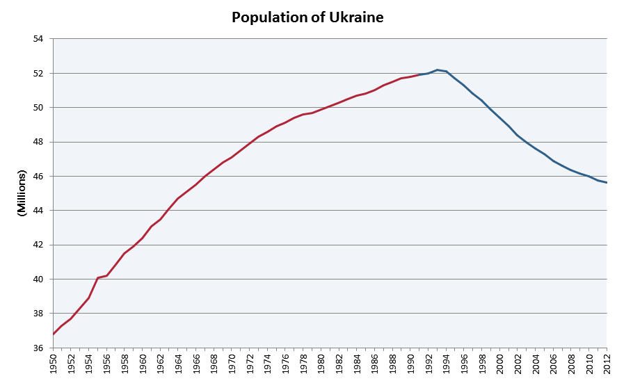 Ukraine's population (1950-2012).